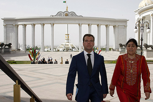 ASHGABAT. Sightseeing in Ashgabat.